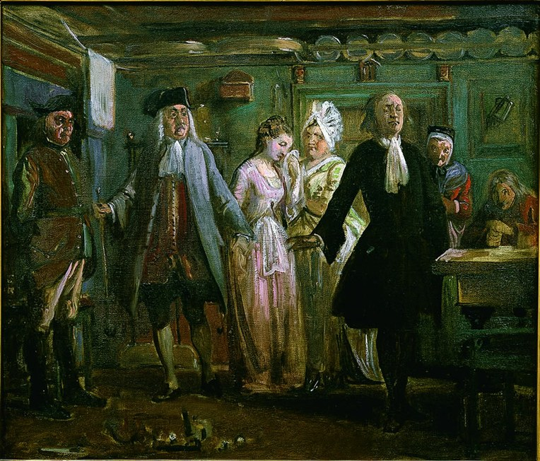 Titel: Erasmus' standhaftighed. Motiv fra Ludvig Holbergs »Erasmus Montanus«, III. akt, VI. Scene